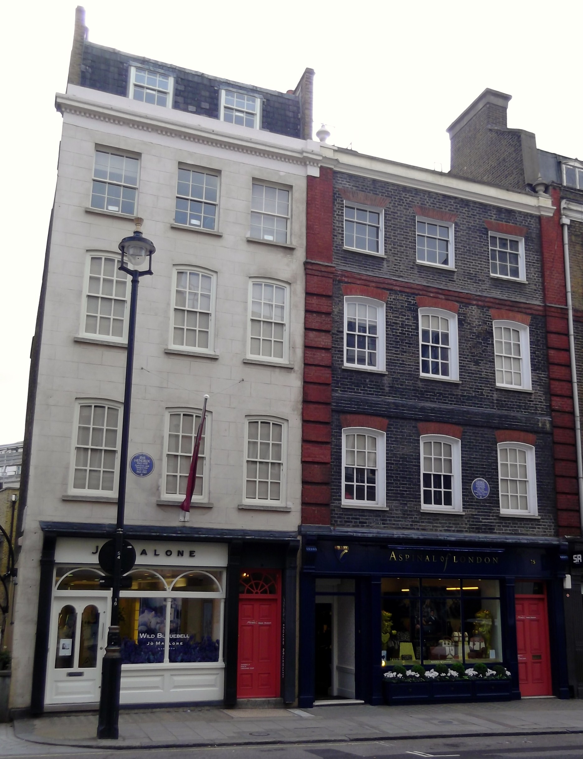 Image of 23 and 25 Brook Street, Mayfair, London, bearing the plaques to their former occupants Jimi Hendrix (l, No.23) and George Frideric Handel (r, No.25). The upper floors form the Handel House Museum.